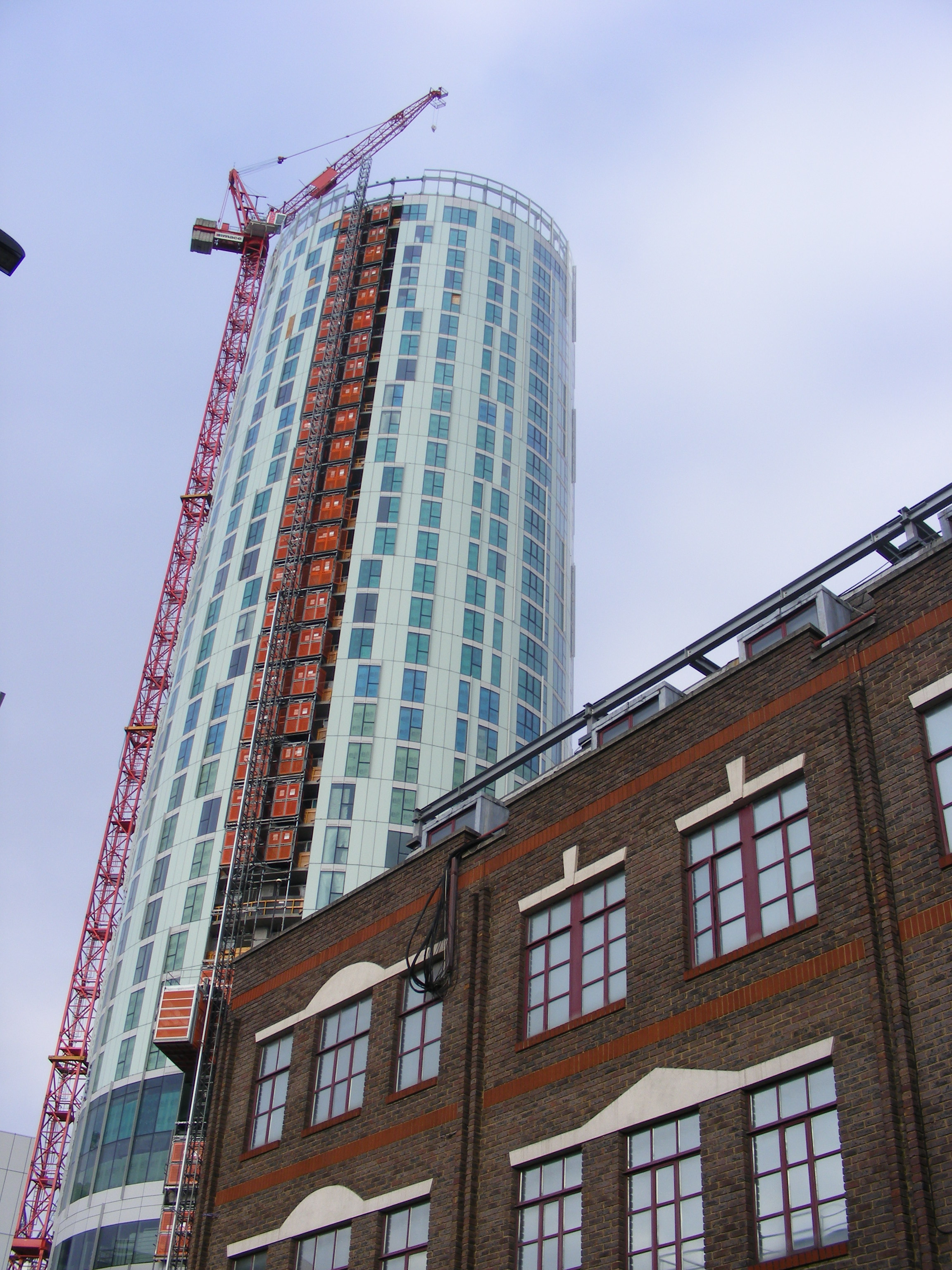 Vauxhall Sky Gardens, Lambeth, London, UK